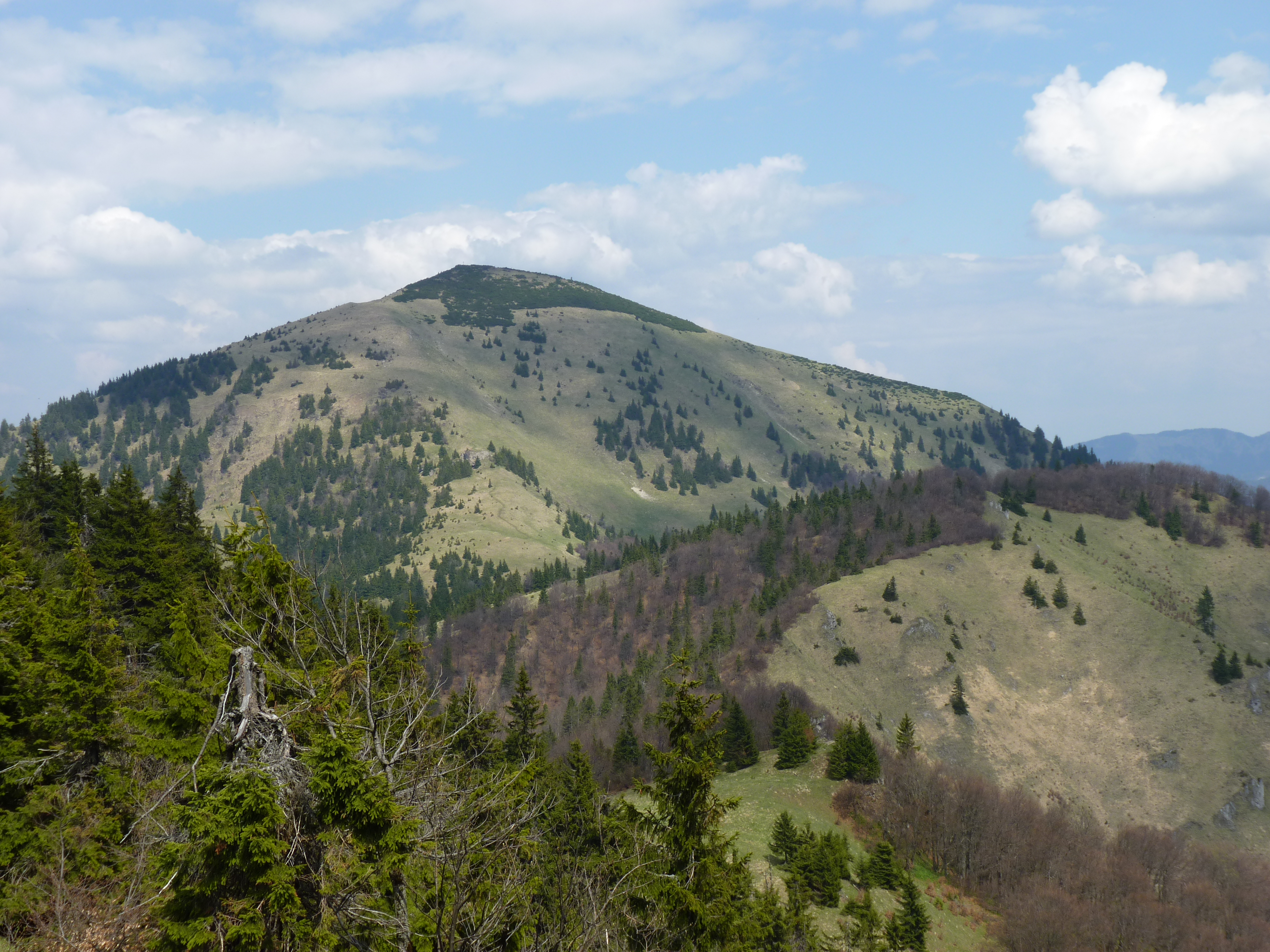 Great Fatra, Slovakia